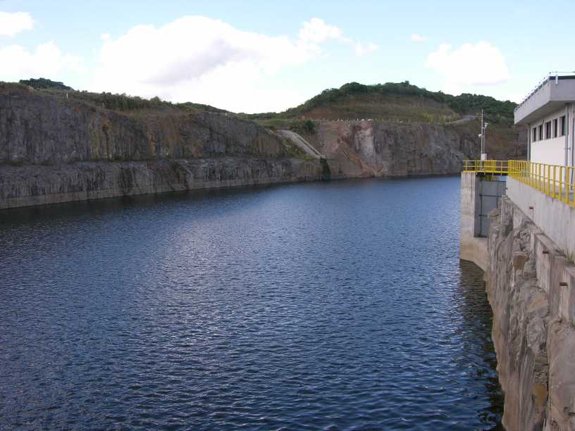 UHE Dam filled up, Campos Novos, SC